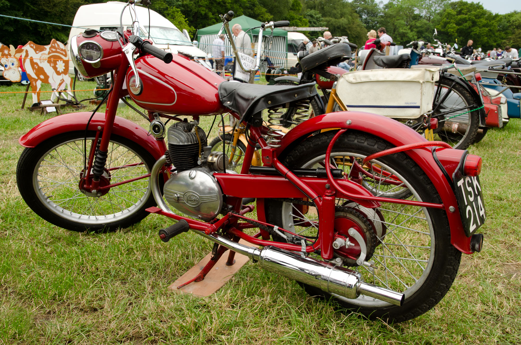 Heskin Hall Steam Fair 31/05/2014